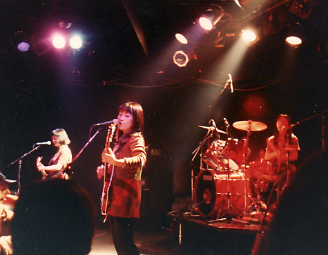 Shonen Knife at the Town Pump, Vancouver.